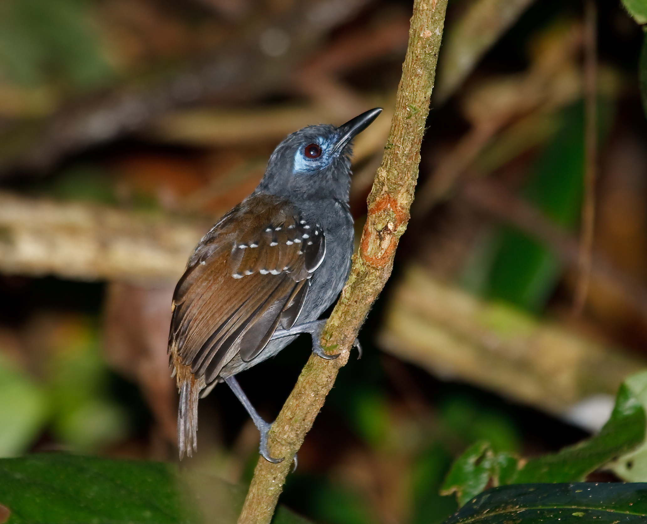 Chestnut-backed Antbird, El Paujil, Cololmbia